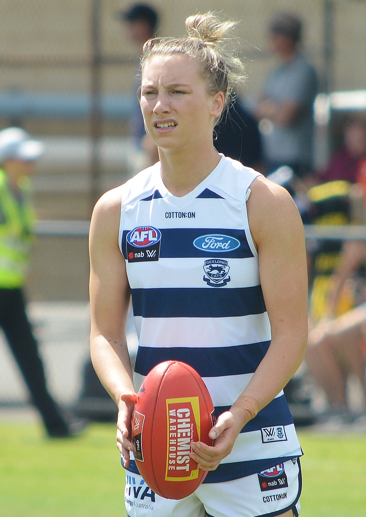 Sophie van de Heuvel with Geelong in the round 4 2020 AFLW match against Richmond at Queen Elizabeth Oval in Bendigo.